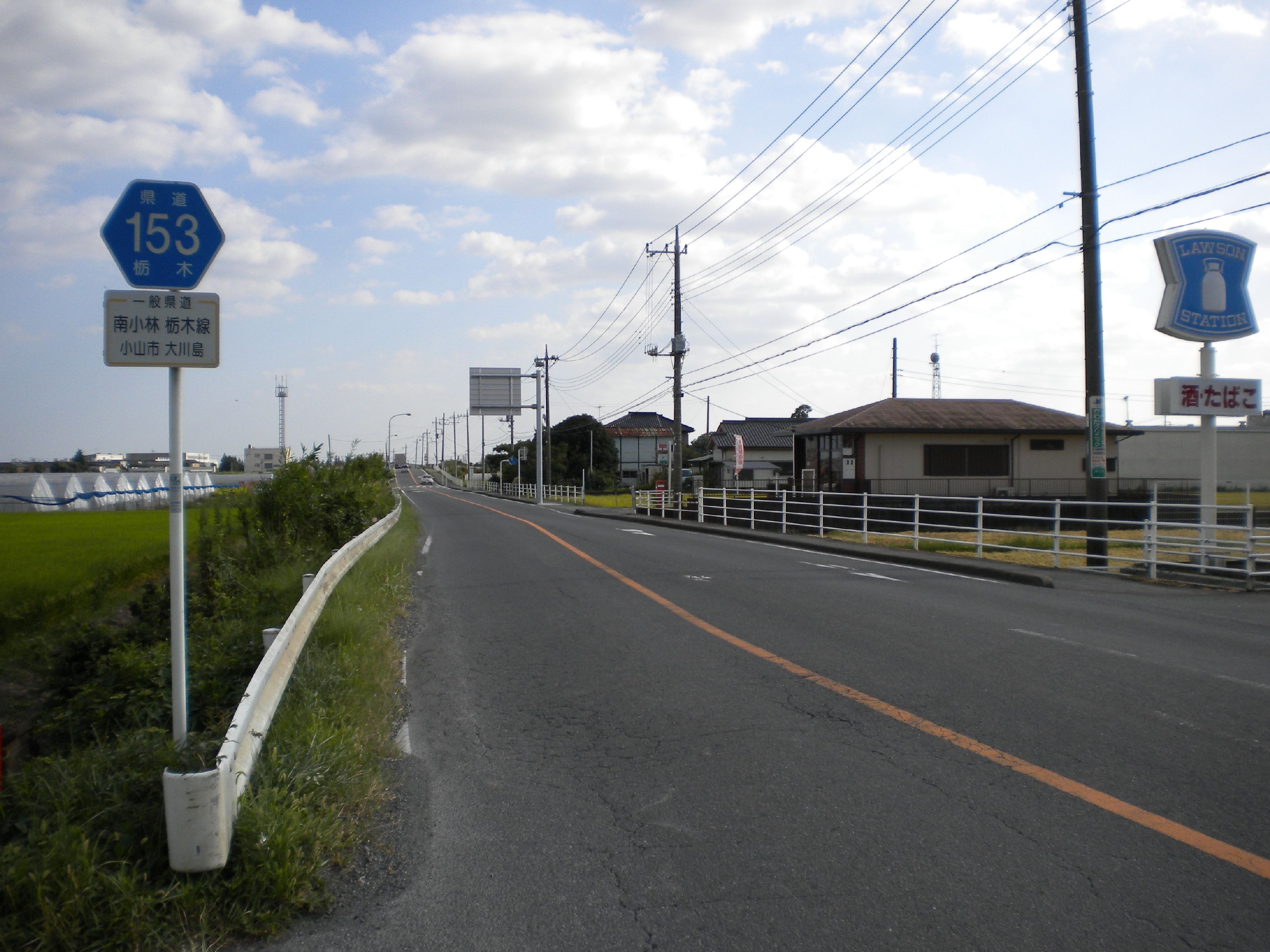 Tochigi prefectural road No.153 on Oyama city